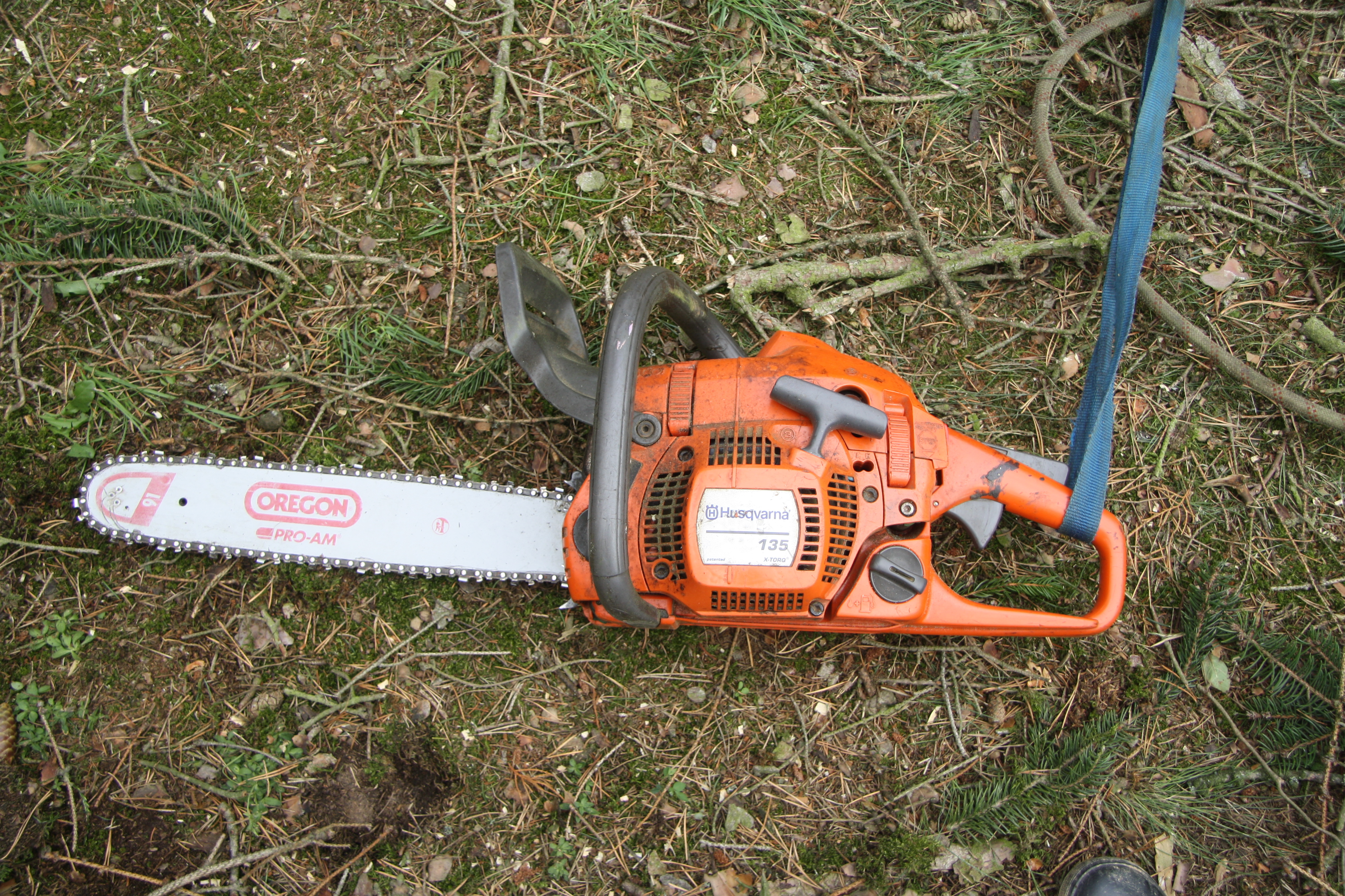 Chainsaw Husqvarna 135 near Třebíč, Třebíč District.